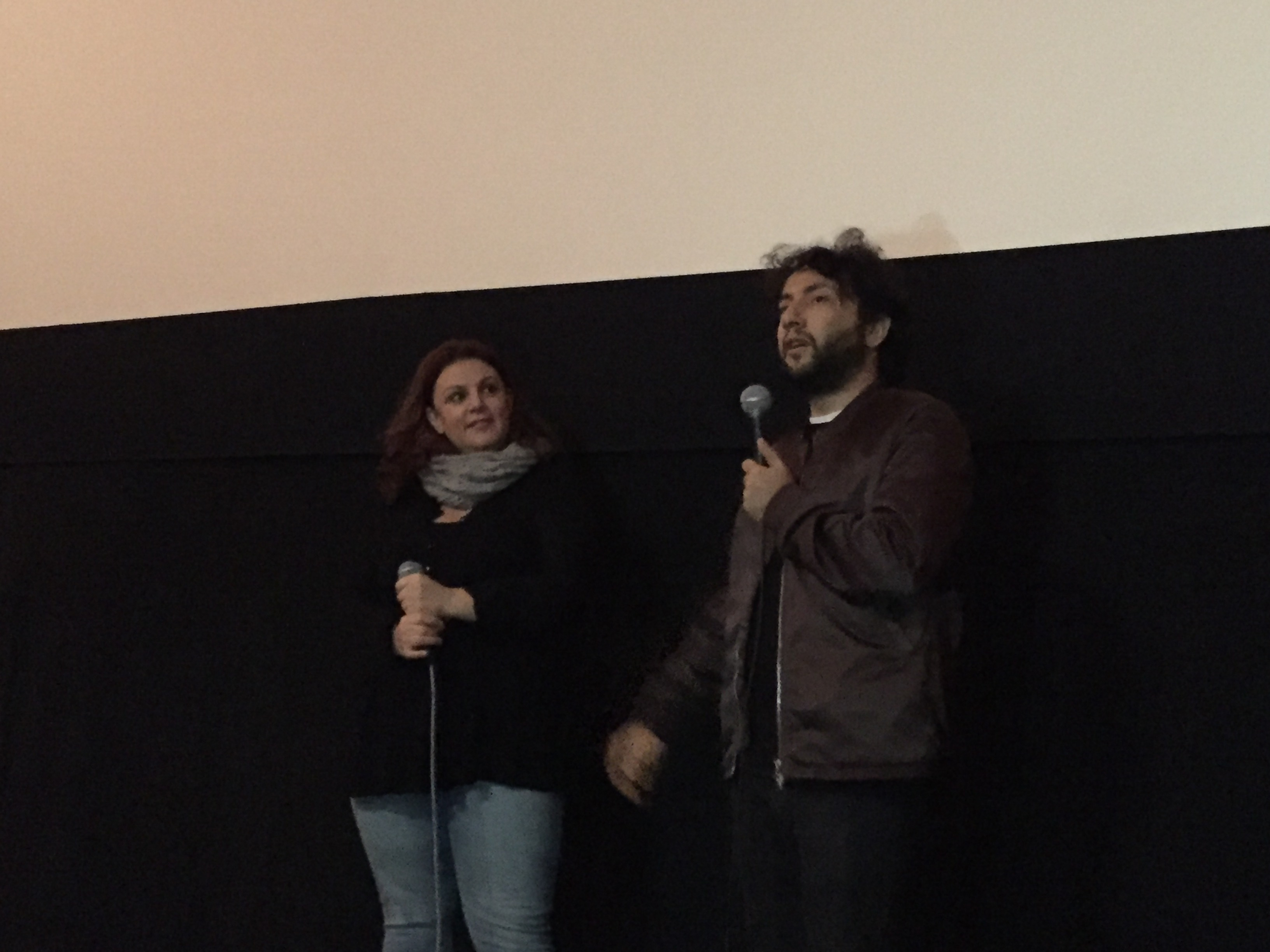 Director Kaan Müjdeci (on the right) during the question/answer session following the screening of his film, Sivas, at the Seattle Turkish Film Festival. Taken at the SIFF Cinema Uptown in Seattle, Washington on November 8, 2015. On the left is one of the organizers of the festival.